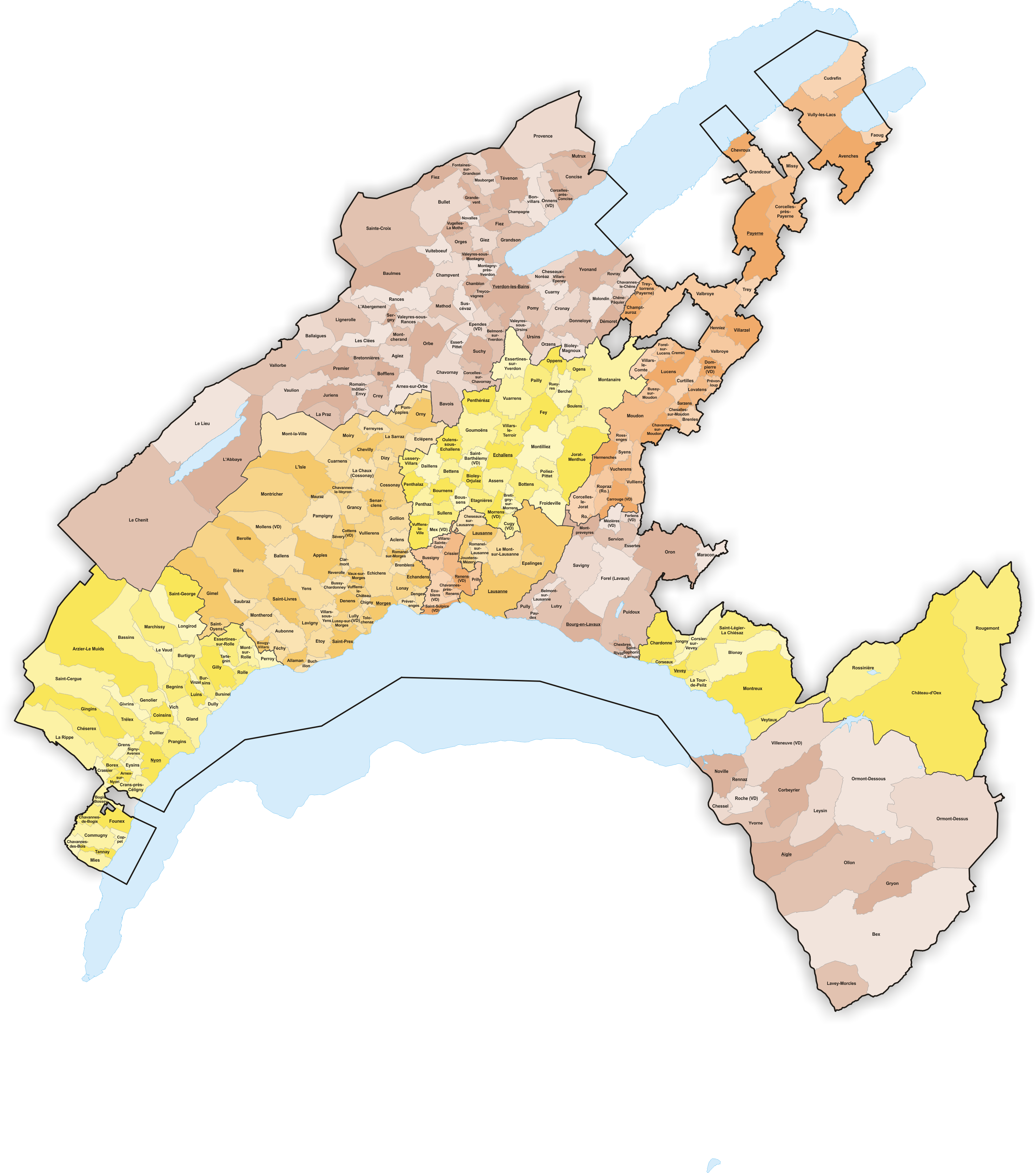 Municipalities in Canton Waadt